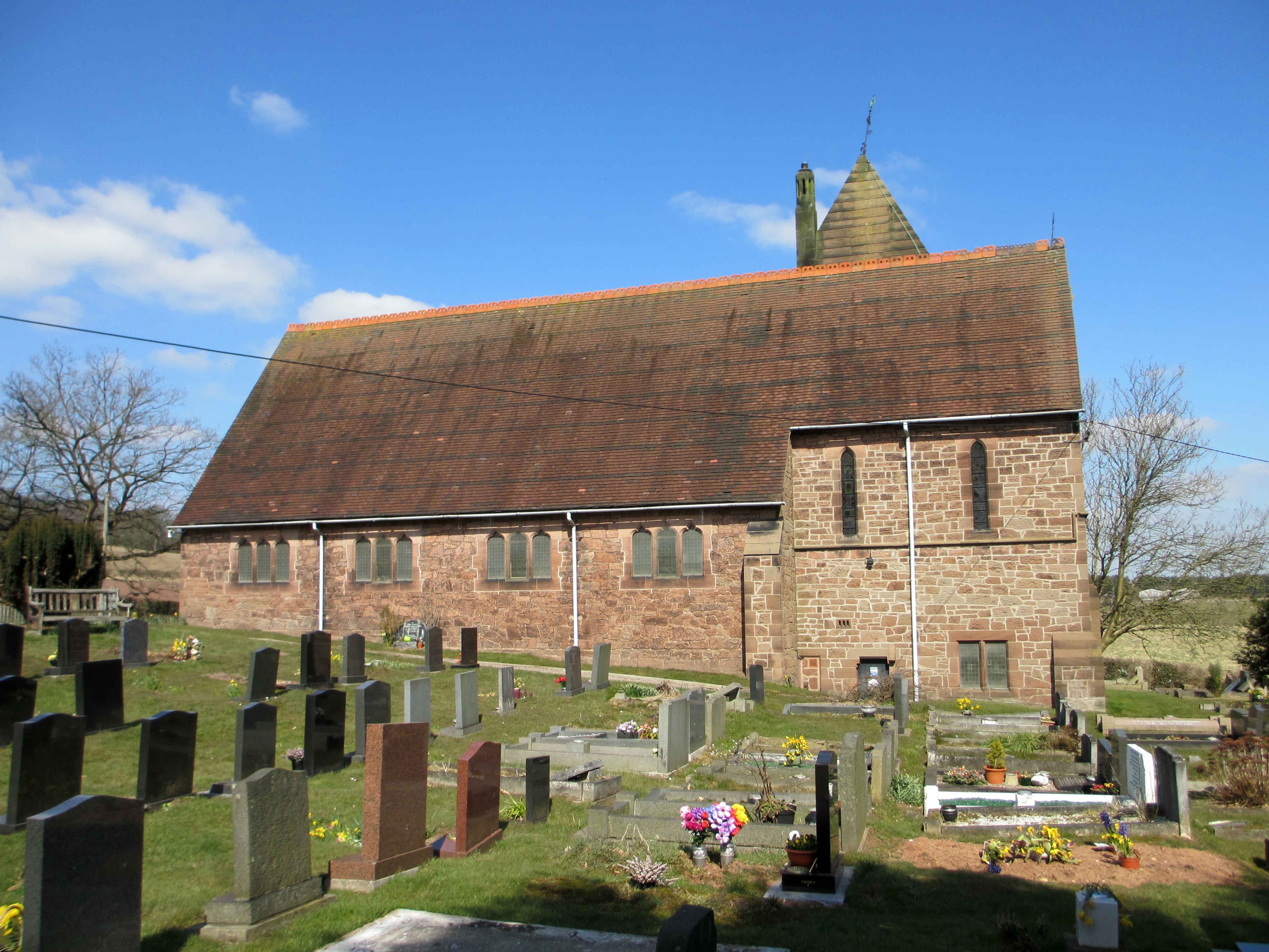 Photograph of St John's Church, Cotebrook